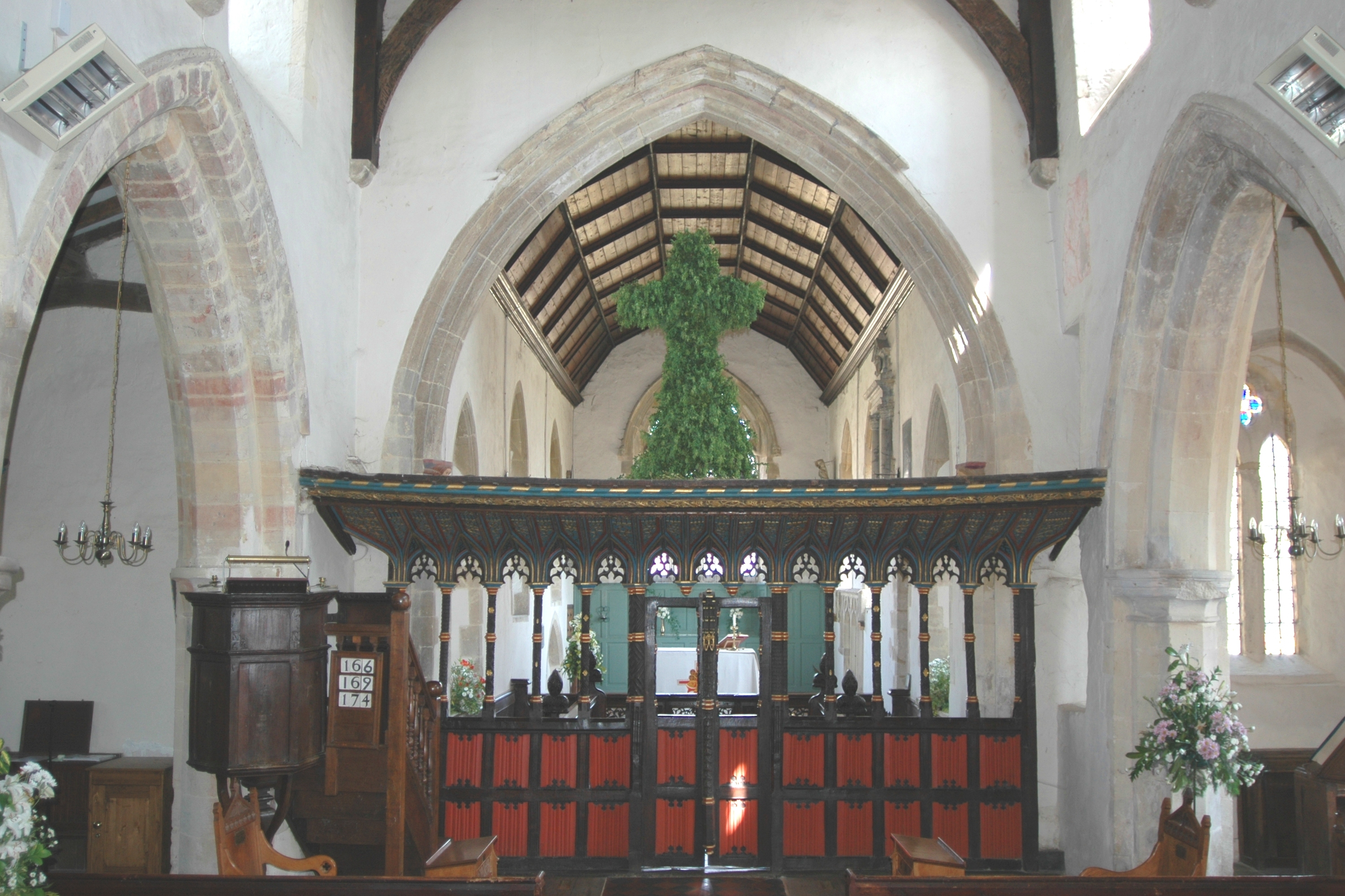 Rood screen and cross in the Church of England parish church of St Mary the Virgin, Charlton-on-Otmoor, Oxfordshire.